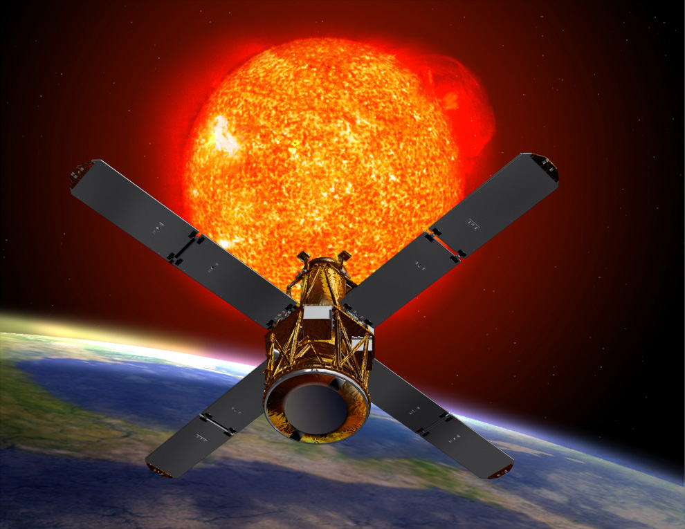 An artists depiction of the RHESSI spacecraft observing the sun.